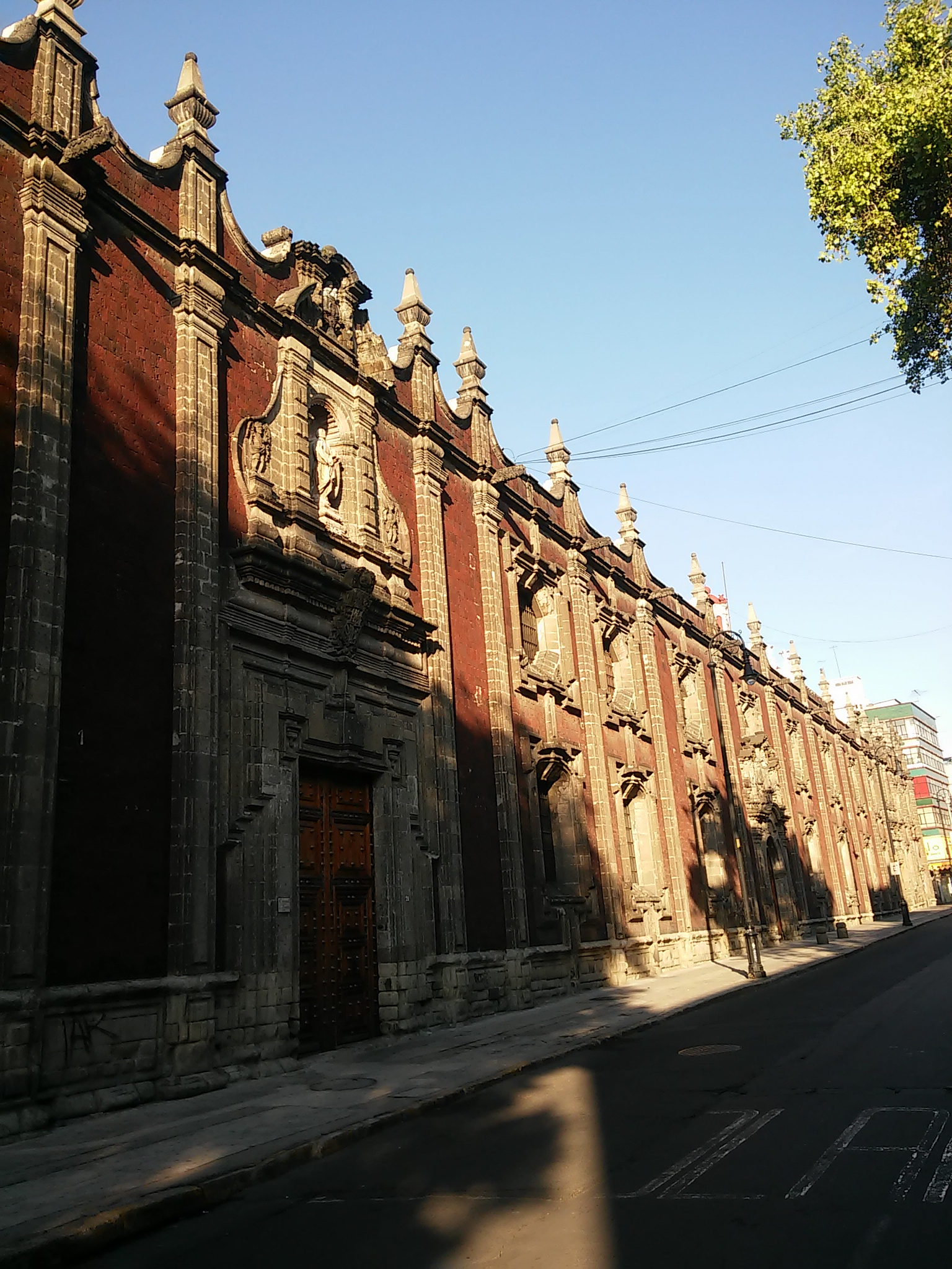 Vista del Colegio de las Vizcaínas, en el centro histórico de la Ciudad de México